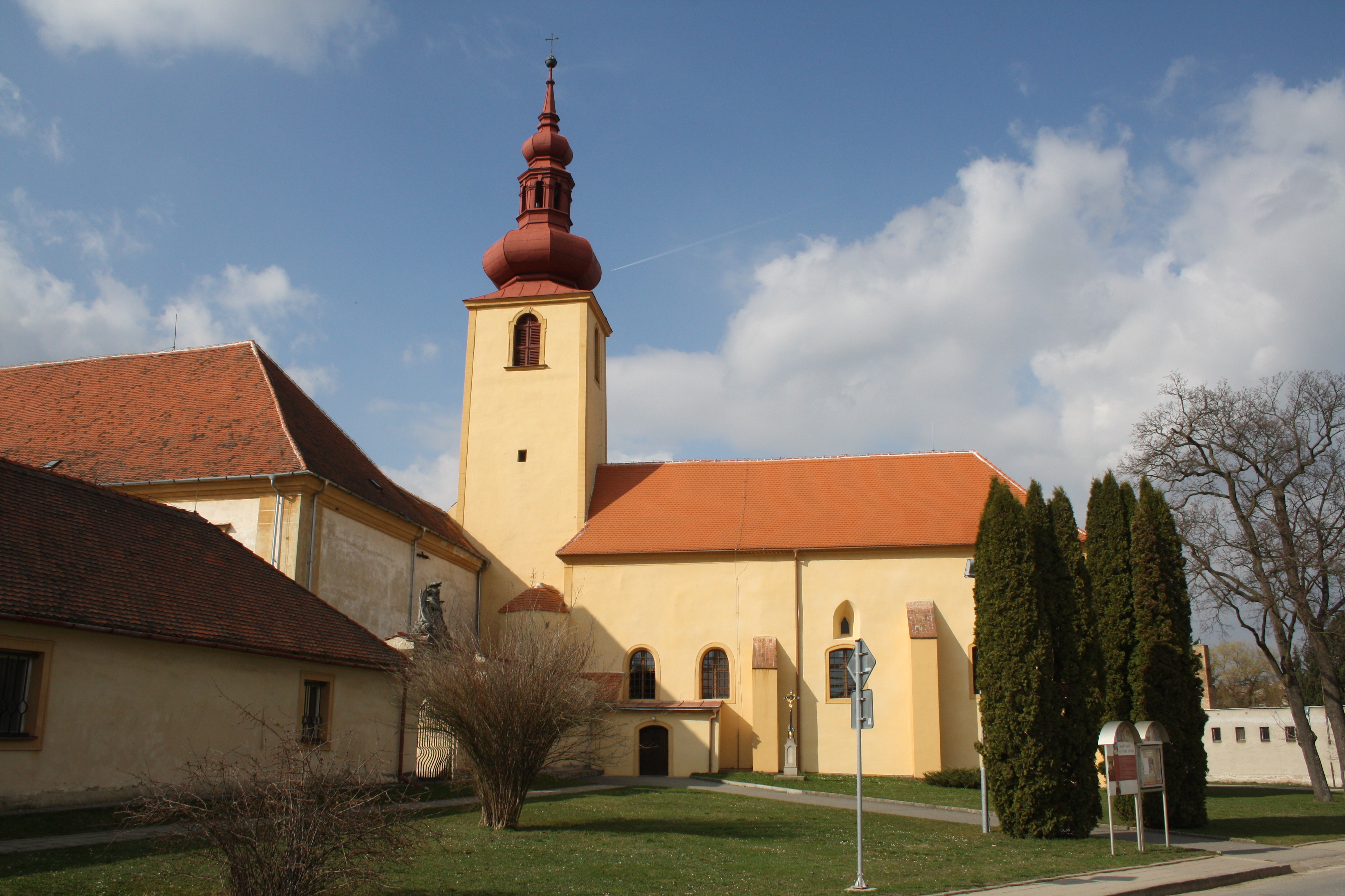 Overview of Church of Saint Peter and Paul in Dalešice, Třebíč District.